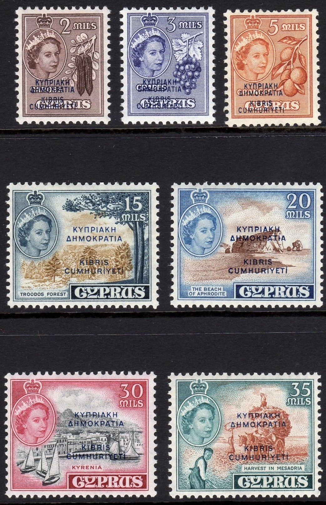 1955 stamps of Cyprus overprinted Cyprus Republic 1960.